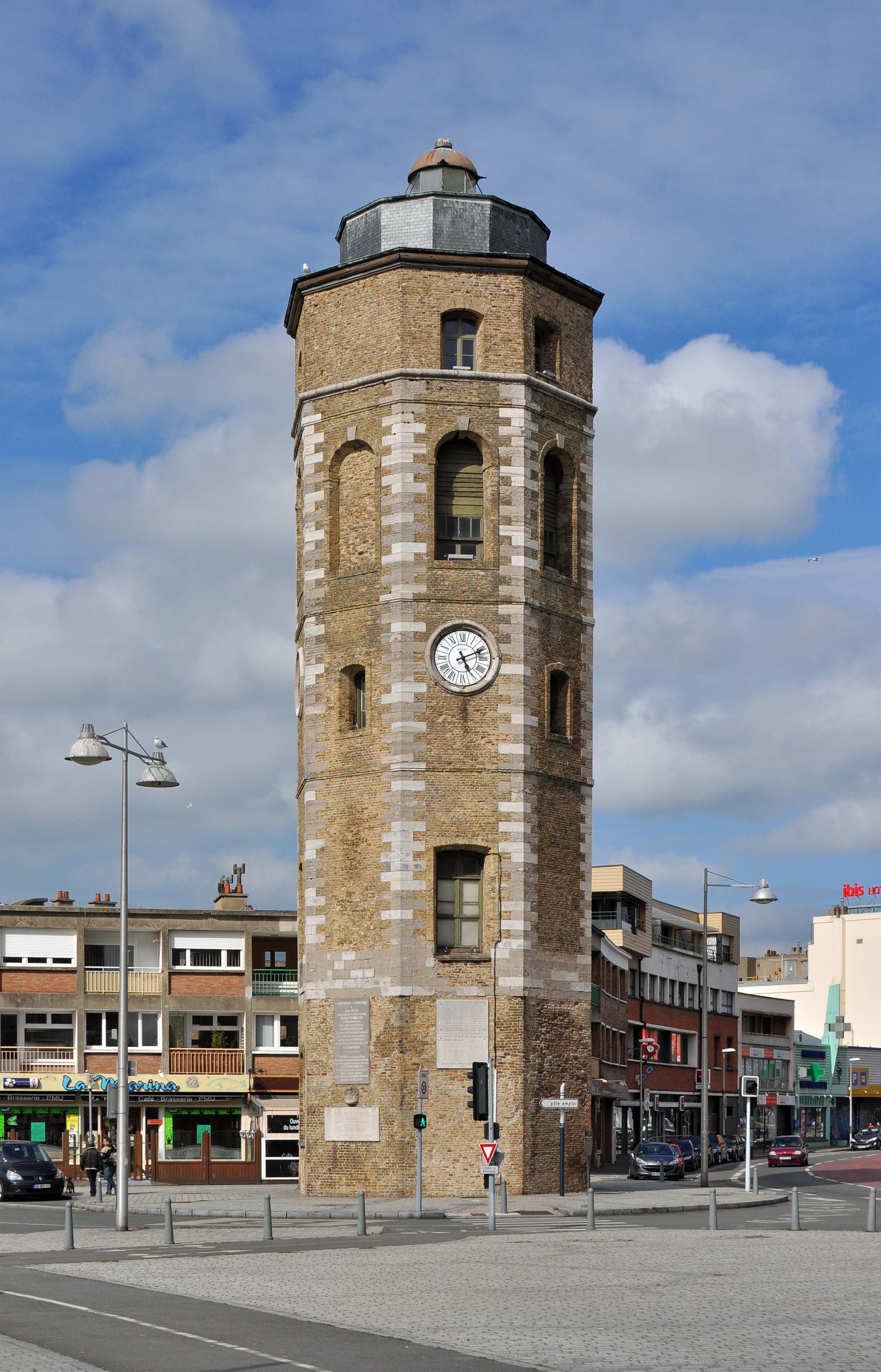 Dunkerque (département du Nord, France): the 'Leughenaer' tower. Former tower of the city's ramparts from the 15th-16th centuries; used as a lighthouse from 1825 till 1963.